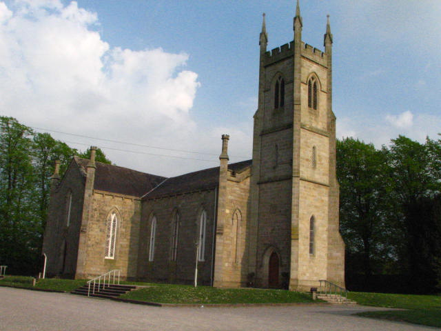 Saint Mary's Church of Ireland A lovely old church of Ireland still in regular use, situated in Bagenalstown.